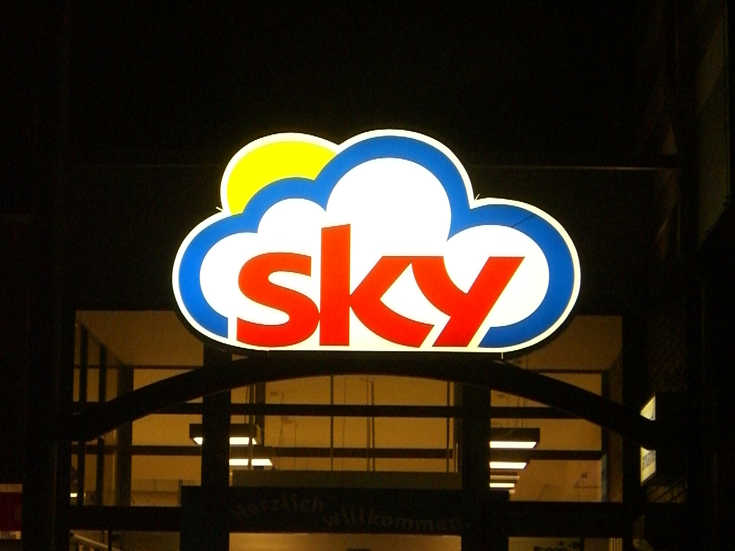 Sign for a Sky supermarket in Flensburg, Germany.